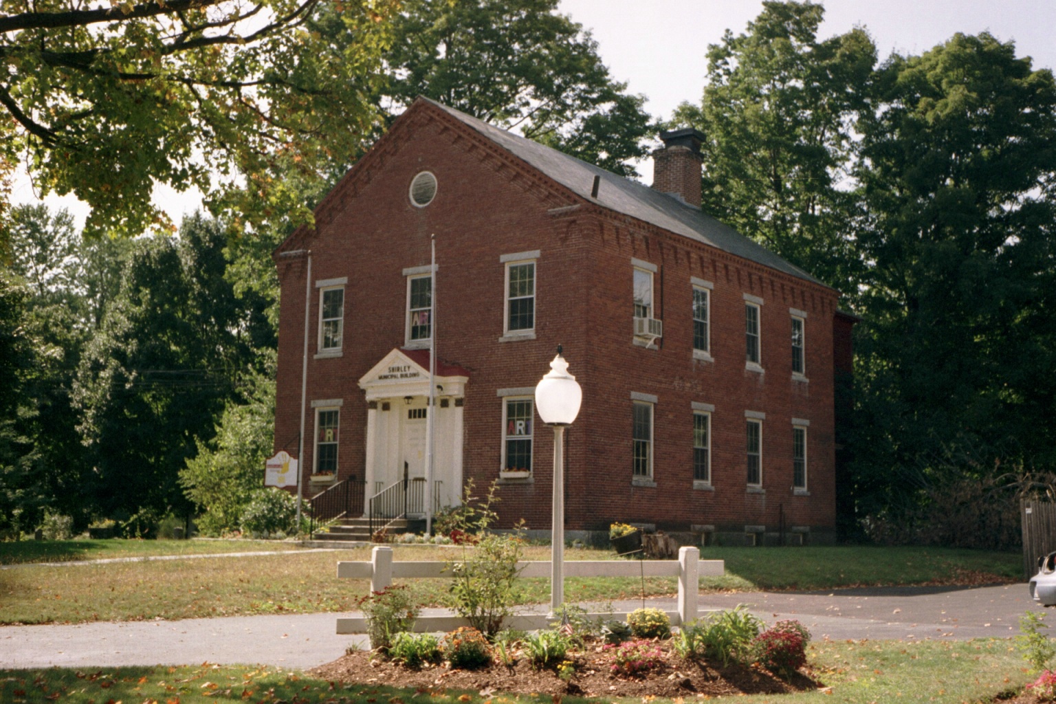 The old municipal building on Lancaster Road in Shirley, Massachusetts. Around this time it was replaced by the Town Offices on Front Street. A generation or so previously it used to serve as a high school, and after the town administration moved to its new facility, it was used for a time by the Hands-On Art Center. No one uses it for anything now (2009).